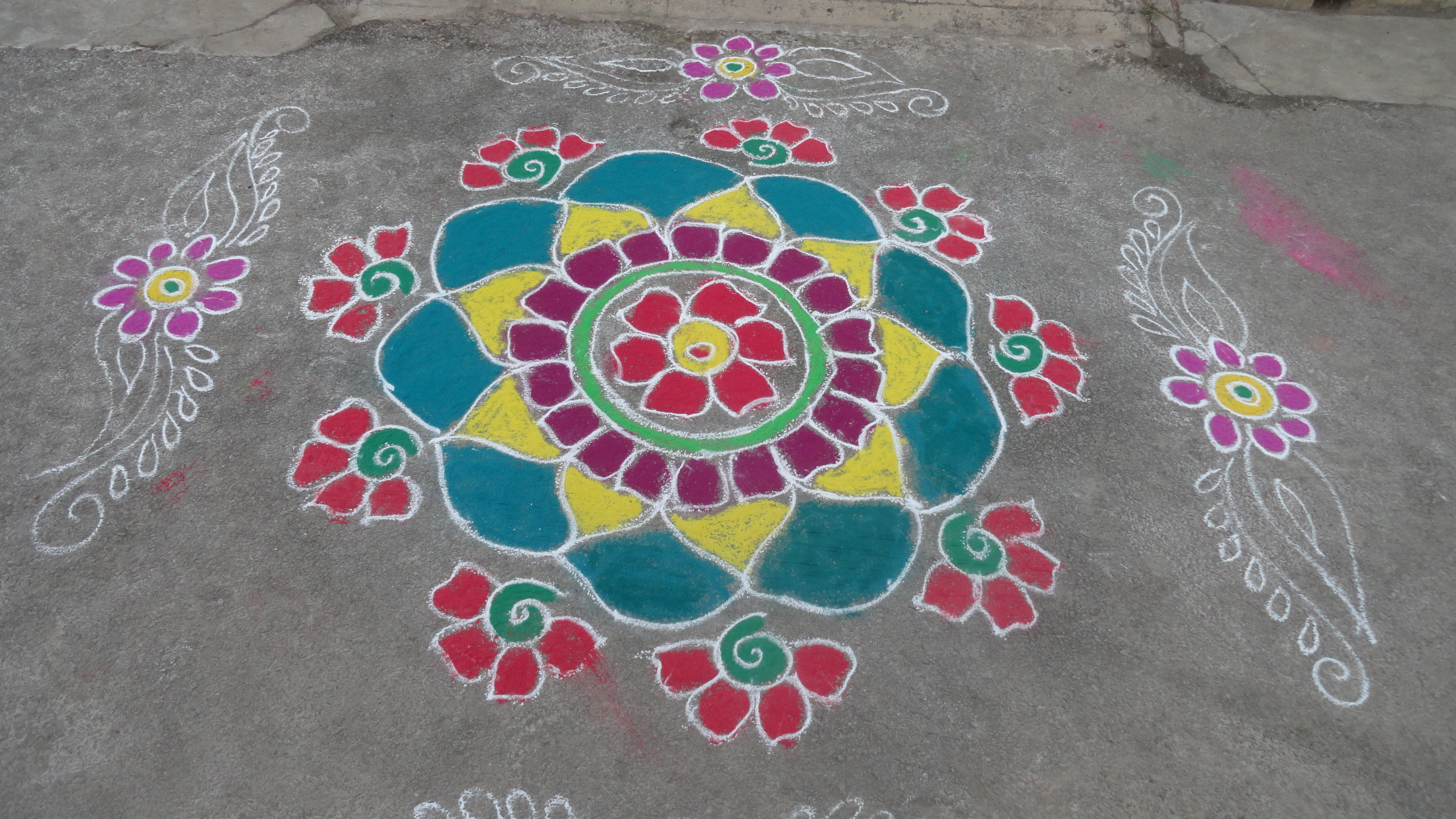 Decoration in front of Indian villages on Sankranti festivals